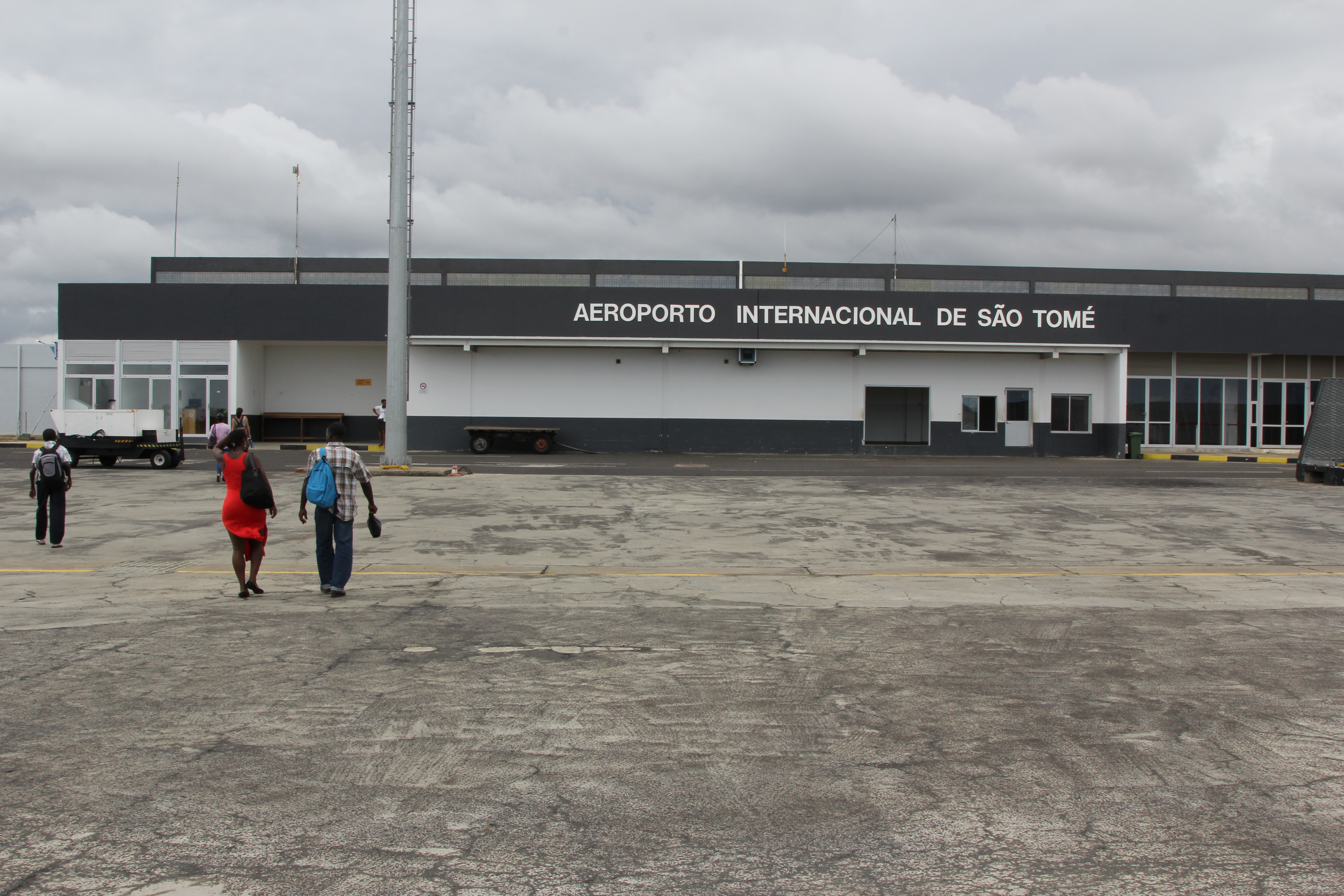 Airside View of the Terminal Building - São Tomé International Airport